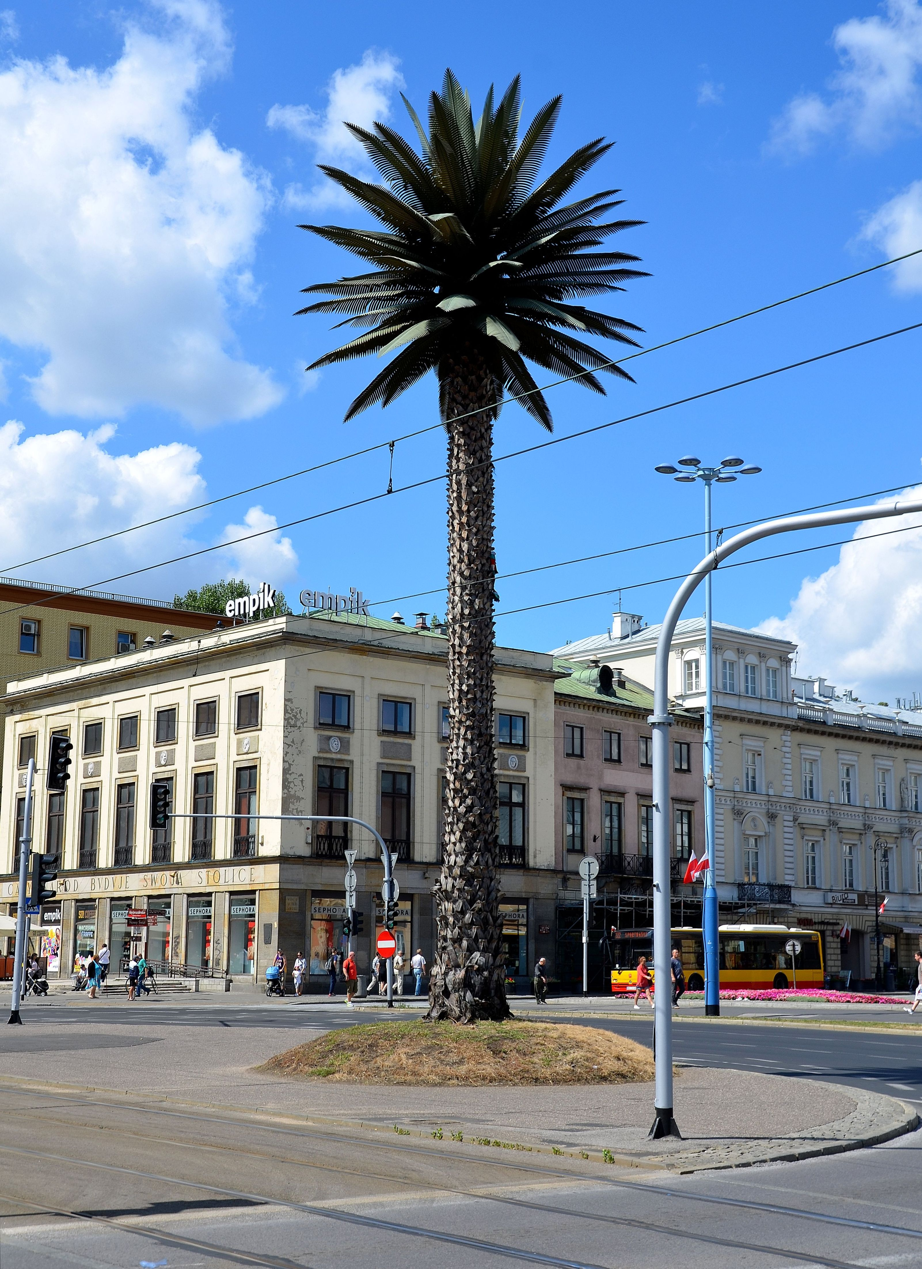 Artificial palm tree at the Charles de Gaulle roundabout in Warsaw